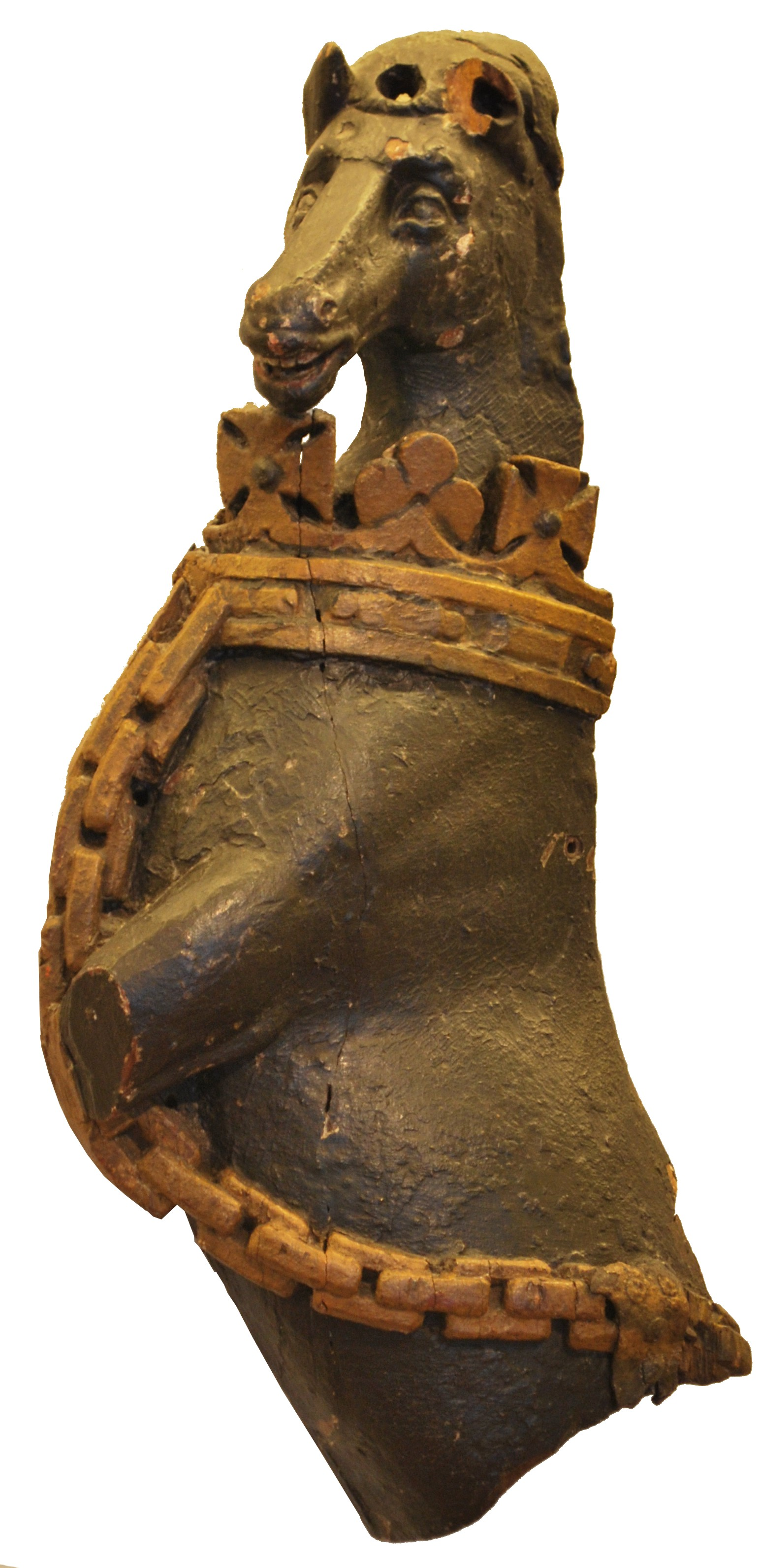 Unicorn from English ship sunk at the Battle in Vågen in Bergen i 1665. Now found in Bergen sjøfartsmuseum